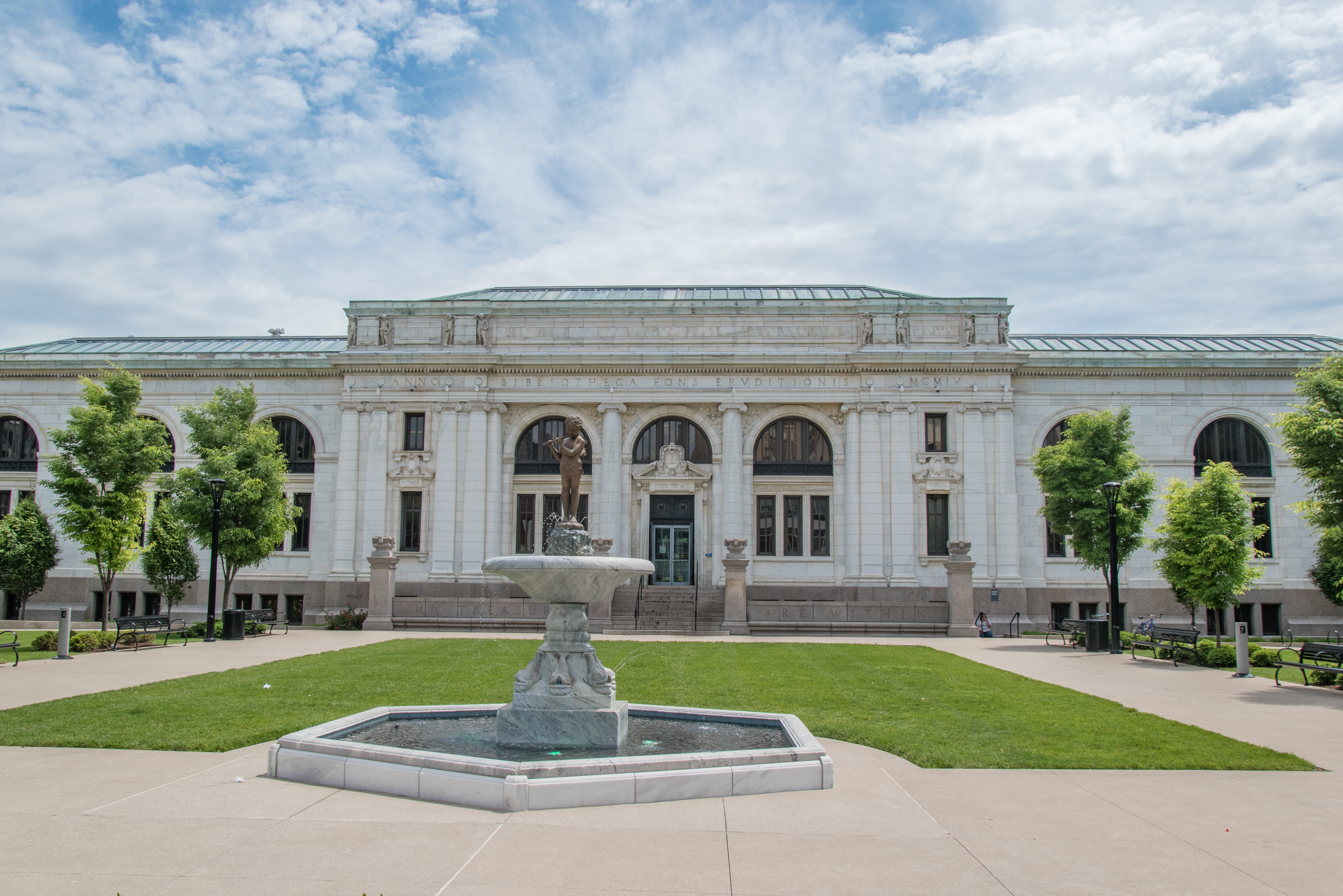 CML Main Library east facade.